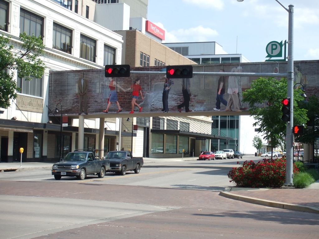 Mural near the junction 12th St and O St in Lincoln, Nebraska, USA